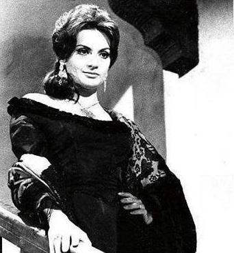 Perla Cristal- actriz